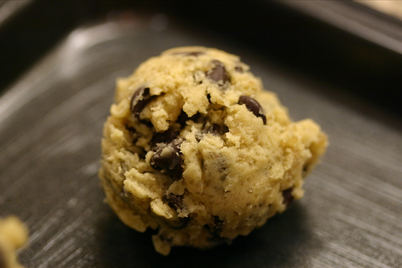 A ball of chocolate chip cookie dough ready for baking.